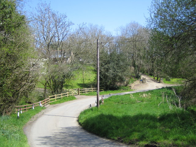 Cotland Mill.